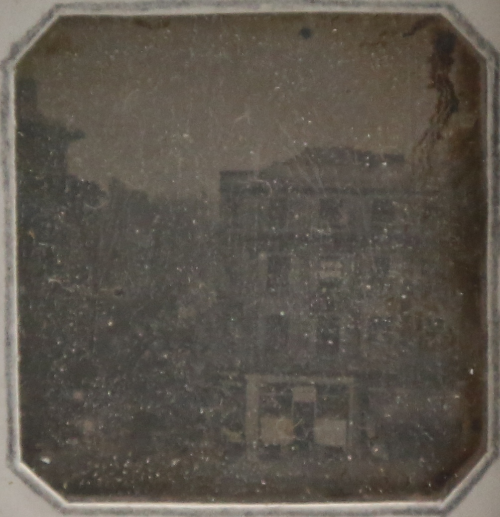 Daguerreotype of the Royal Exchange, Manchester. Belived to be the first photograph of Manchester still in existence.